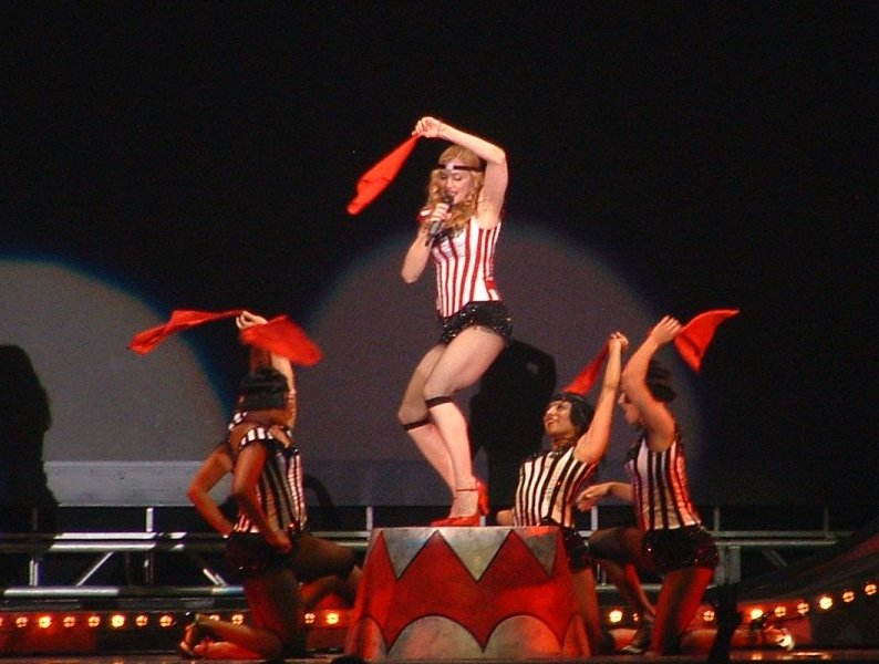 Picture taken by a fan during one of the 2004 concerts